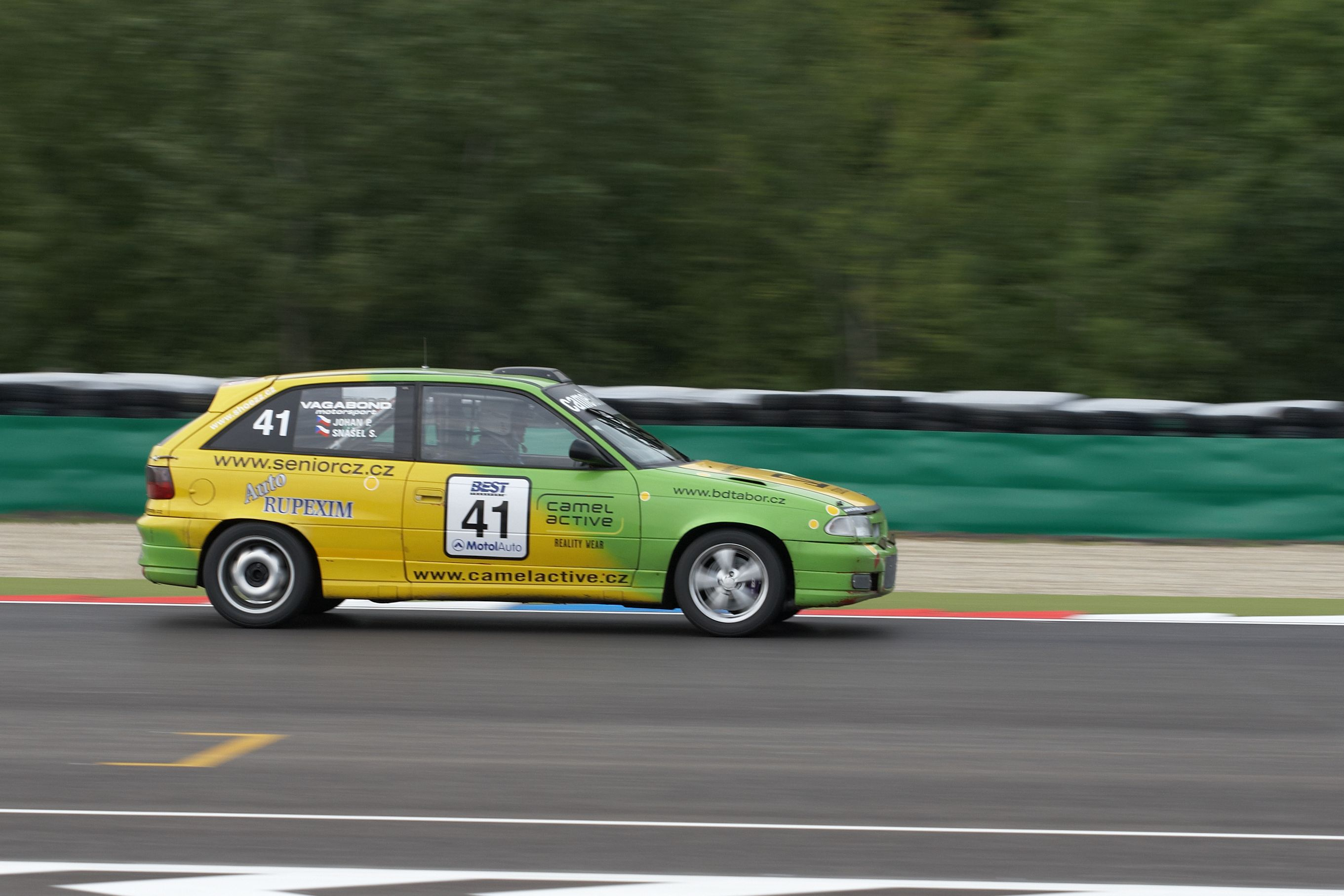 Opel Astra during 12h Le Brno race